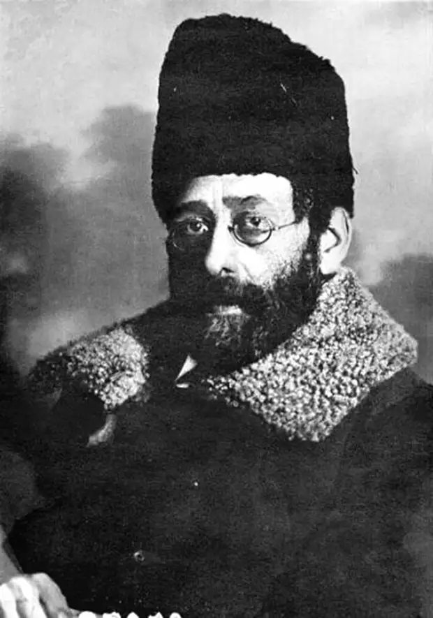 The Menshevik Julius Martov, in a photograph taken in Petrograd in 1917.